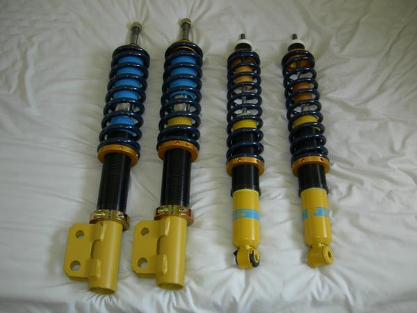 Photo of a set of front and rear coil-overs.Coil-Overs